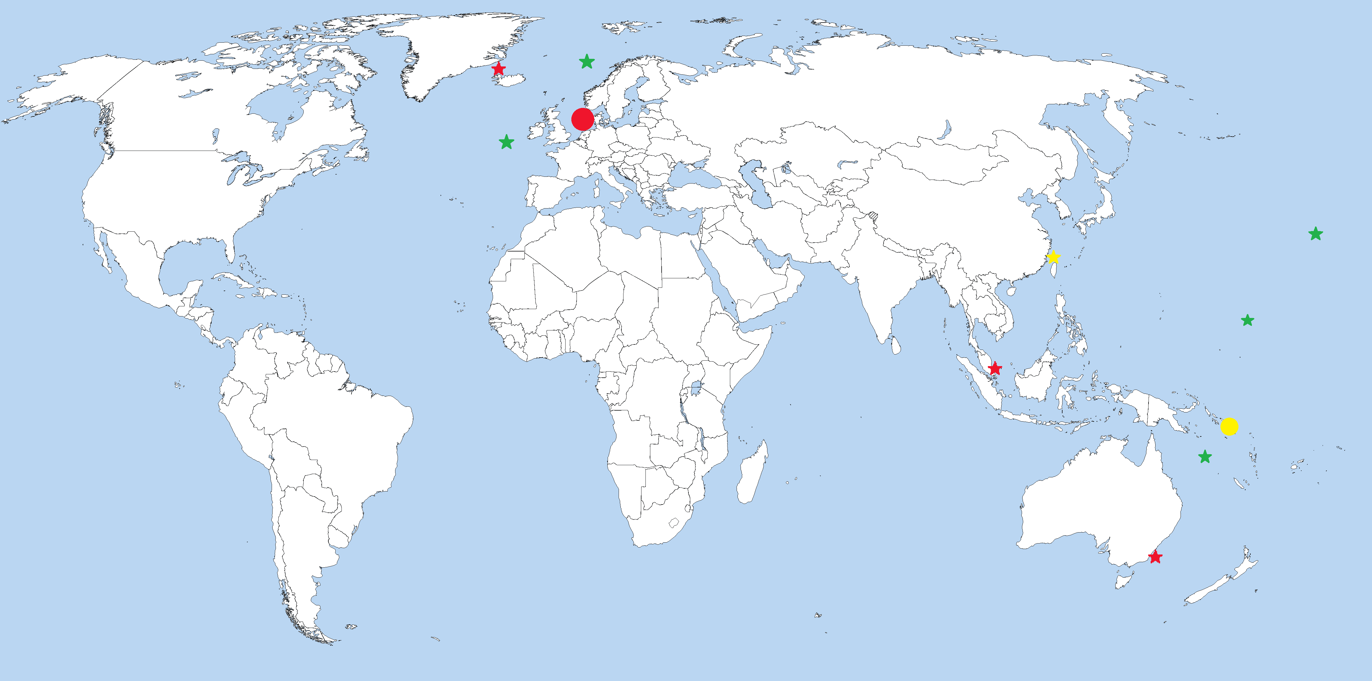 Modified version of File:Map of Sunken Battlecruisers.png, to remove Scharnhorst (which is not a battlecruiser) as well as an extraneous dot in New Delhi. Red symbols denote sunken battlecruisers. Green symbols denote battlecruisers converted into aircraft carriers and thereafter sunk. Yellow symbols denote battlecruisers converted into fast battleships and thereafter sunk.